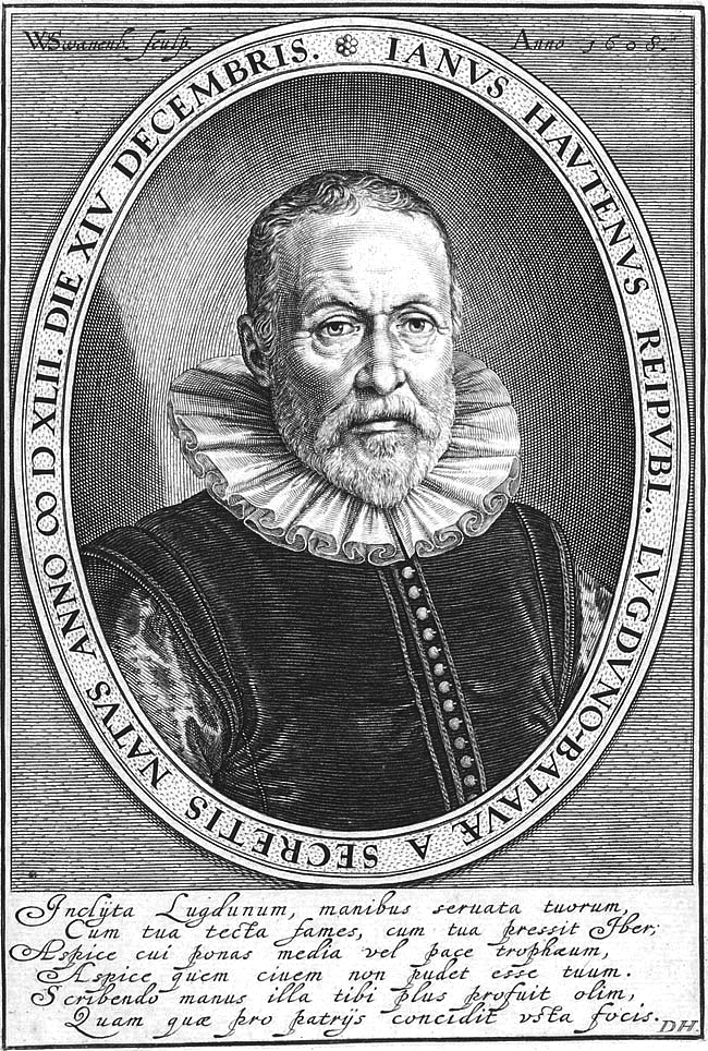 Janus Hautenus, or Jan van Hout (1542-1609); Dutch writer and town secretary of Leiden